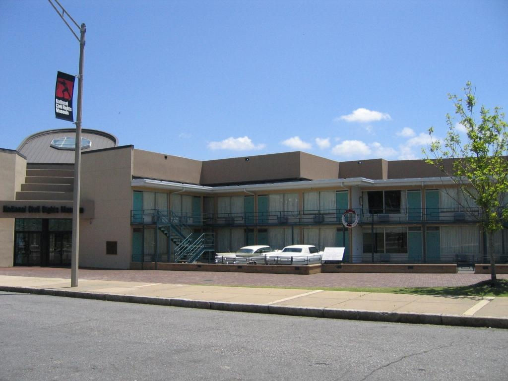 National Civil Rights Museum in Memphis, Tennessee